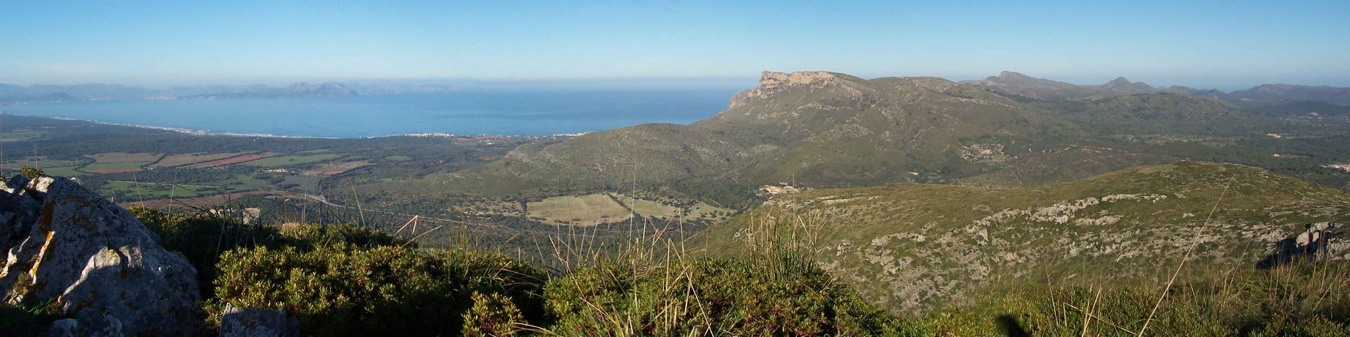 View from the top of Alpara mountain to the north (Majorca, Balearic Islands)